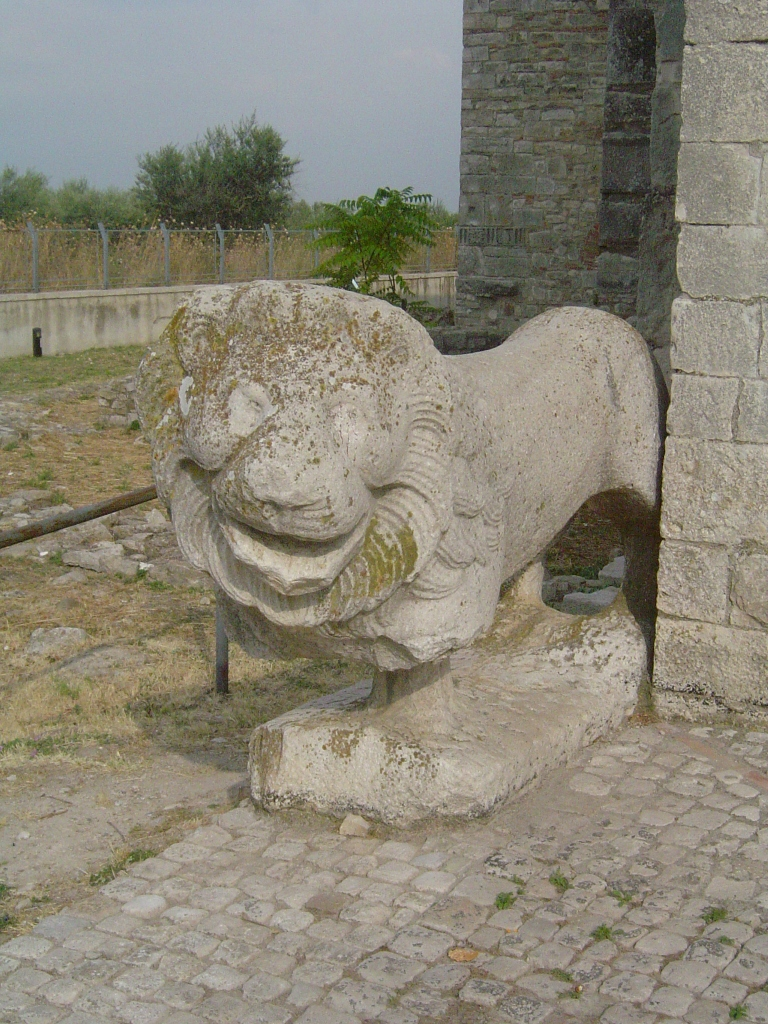 Romanesque sculpture of a lion in Venosa (PZ), Italy